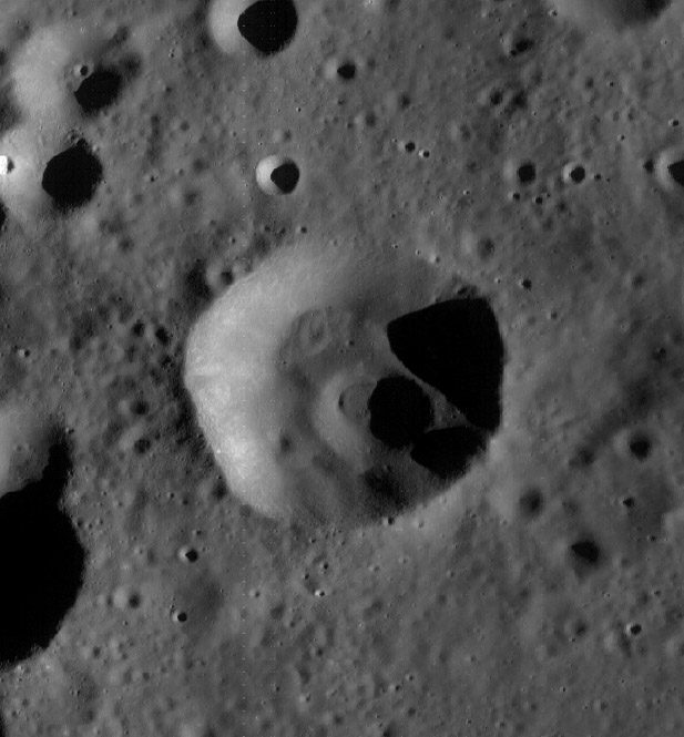 Satellite crater Van Maanen K